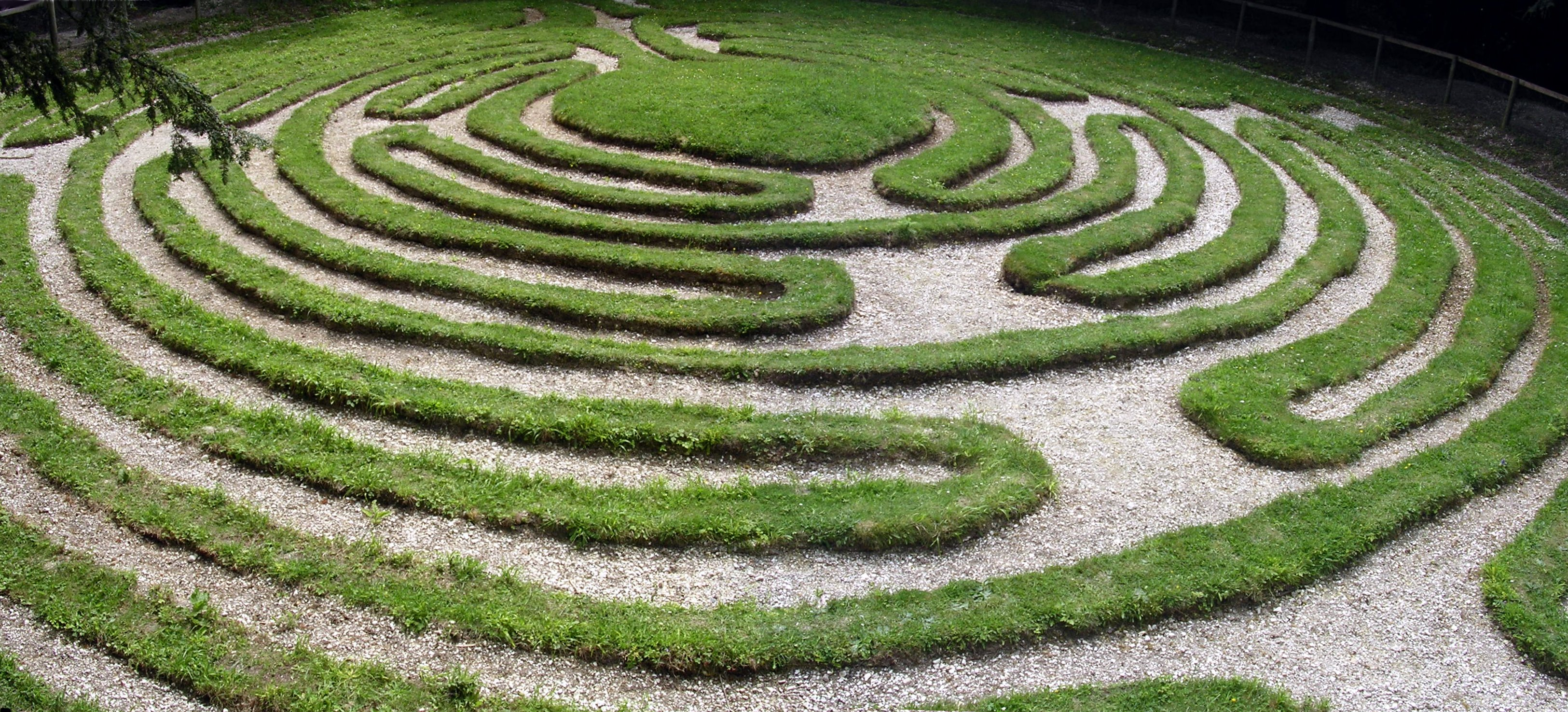 Composite image from two photos of the Mizmaze on Breamore Down, Hampshire